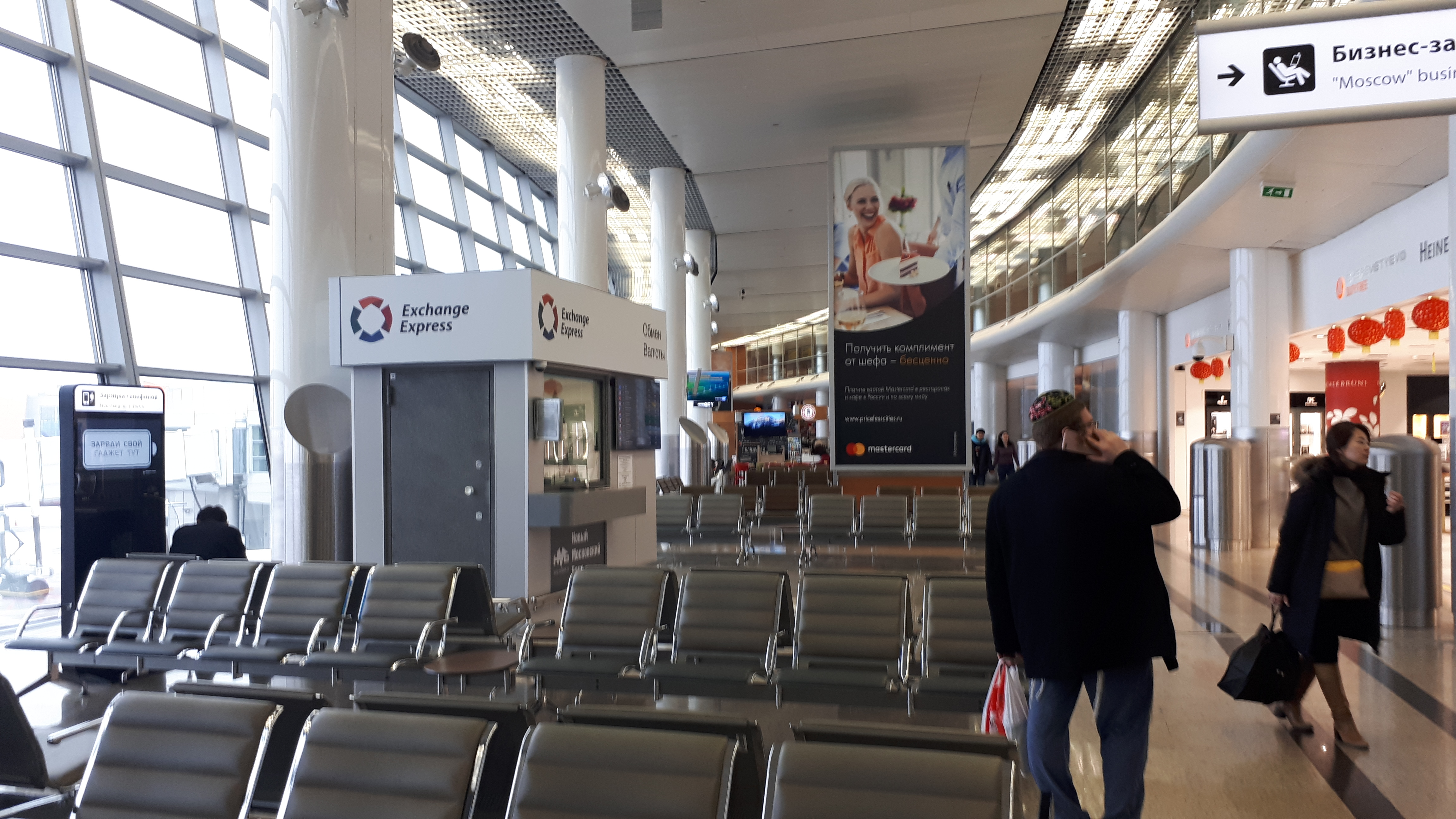 Sheremetyevo Airport terminal D February 2019